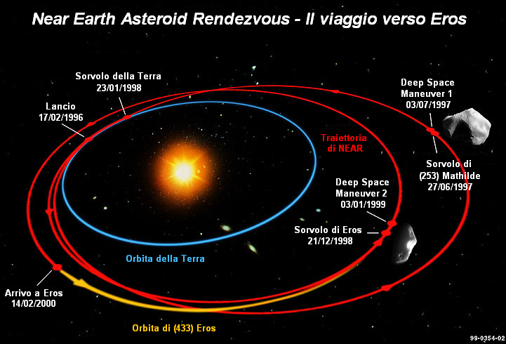 NEAR trajectory